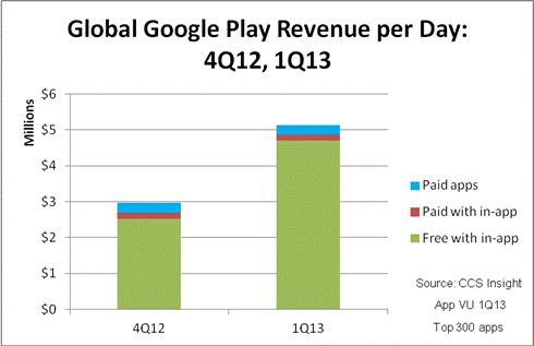 Revenue generated each day globally through mobile apps downloaded from Google Play increased by 70 percent in the first quarter of 2013 compared with the fourth quarter of 2012. Source: CCS Insight See more: Google Play App Revenue Gaining on Apple iTunes Android app revenue grew 70 percent on strong "in-app" purchasing last quarter, according to analyst report. Google Play app revenue increased 70 percent in the first quarter of this year. That rapid growth rate isn't enough to put Google Play on par with the Apple iTunes App Store, but it may persuade more money hungry developers to create tablet and smartphone apps for the Android platform, according one research firm. "We saw revenue from Google Play almost doubling in the first quarter of this year over the two previous quarters," said Paolo Pescatore, director of apps and media for U.K.-based mobile communications research and advisory firm CCS Insight. "At the current pace, Google Play could soon exceed revenue from iPhone apps."